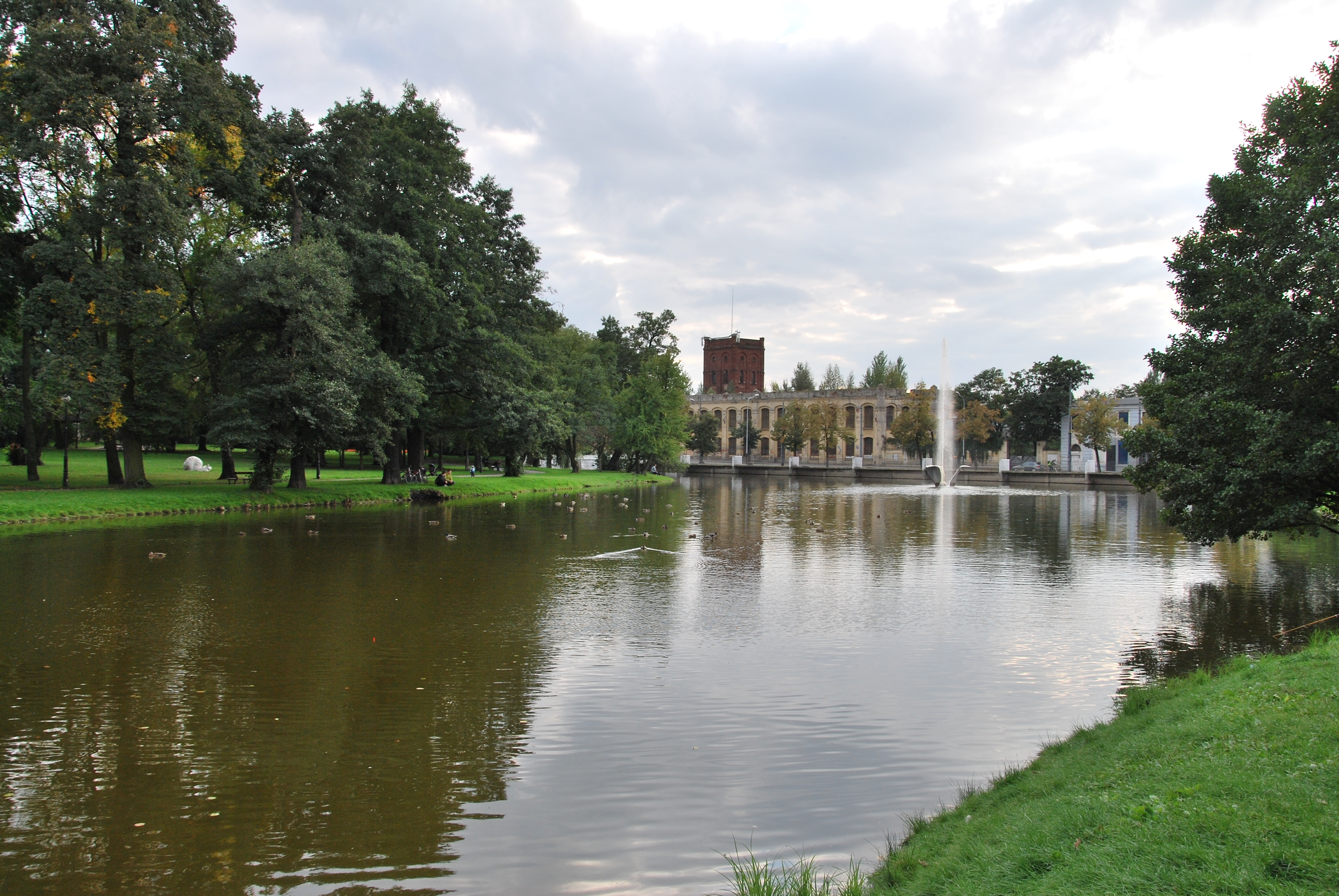 Reymont park in Łódź